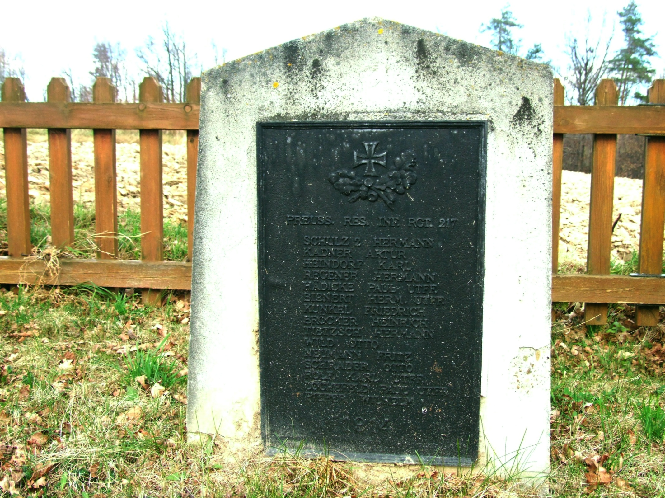 World War I Cemetery nr 307 in Łąkta Dolna. Stela nagrobkowa